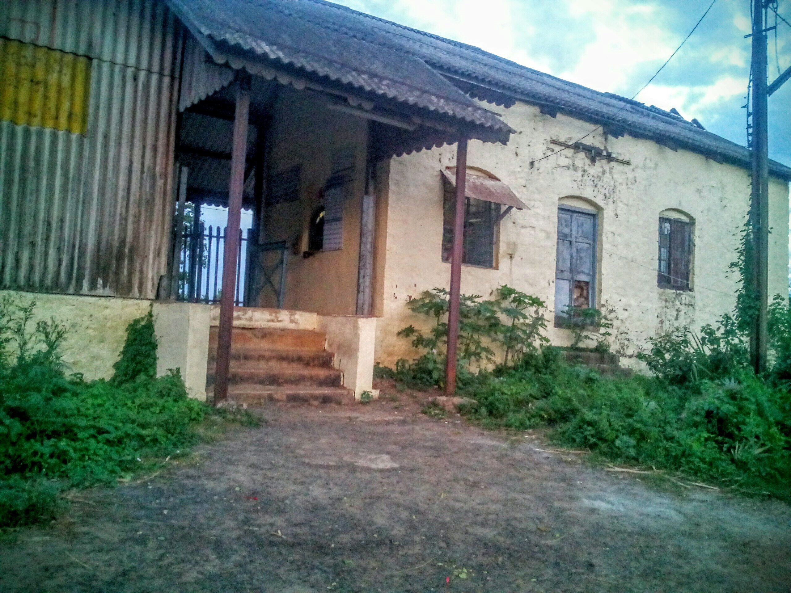 The entrance if kolakaluru railway station